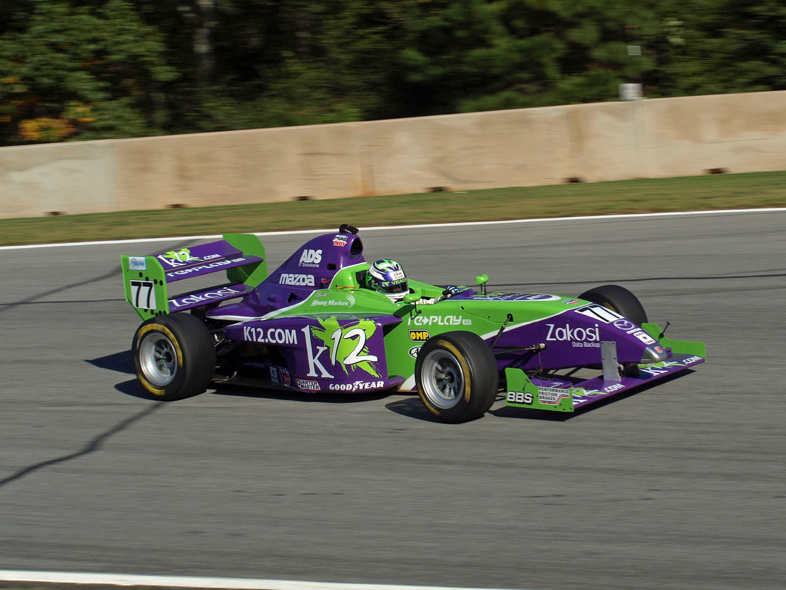 Zach Veach in the Star Mazda Championship race at the 2012 Petit Le Mans